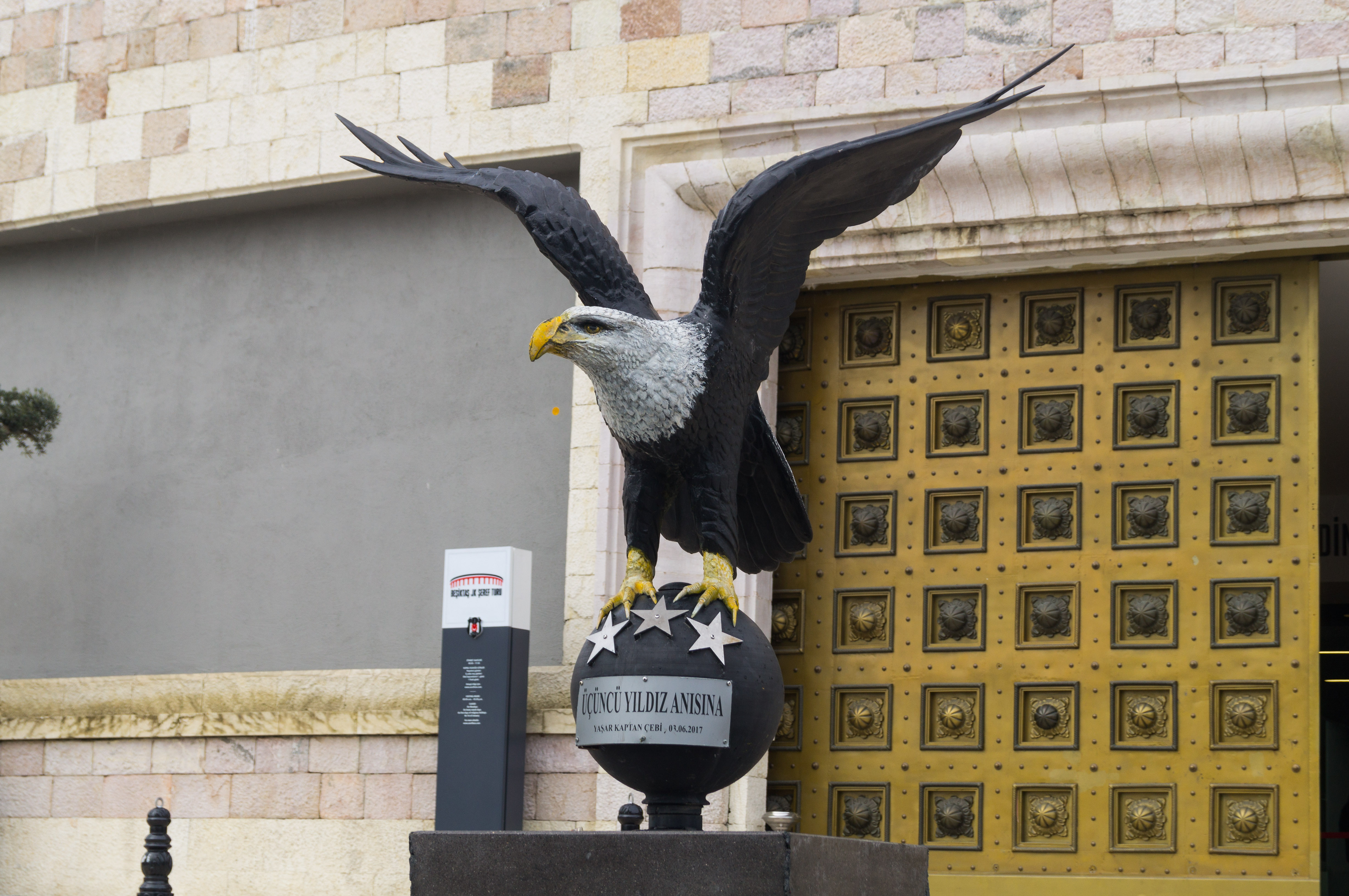 Eagle sculpture in Besiktas, Istanbul